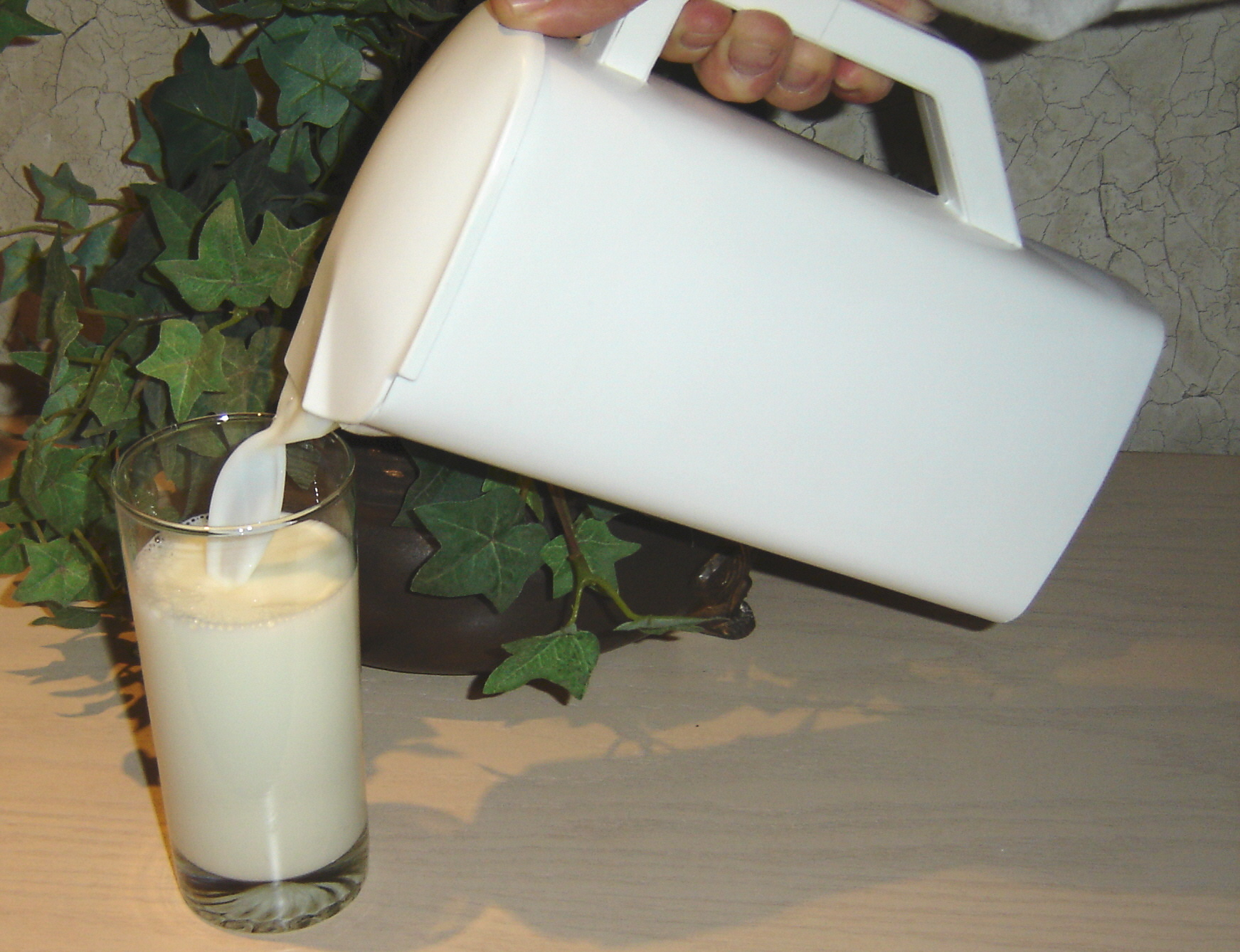 A picture of a plastic milk bag holder (or pitcher) with a lid pouring milk